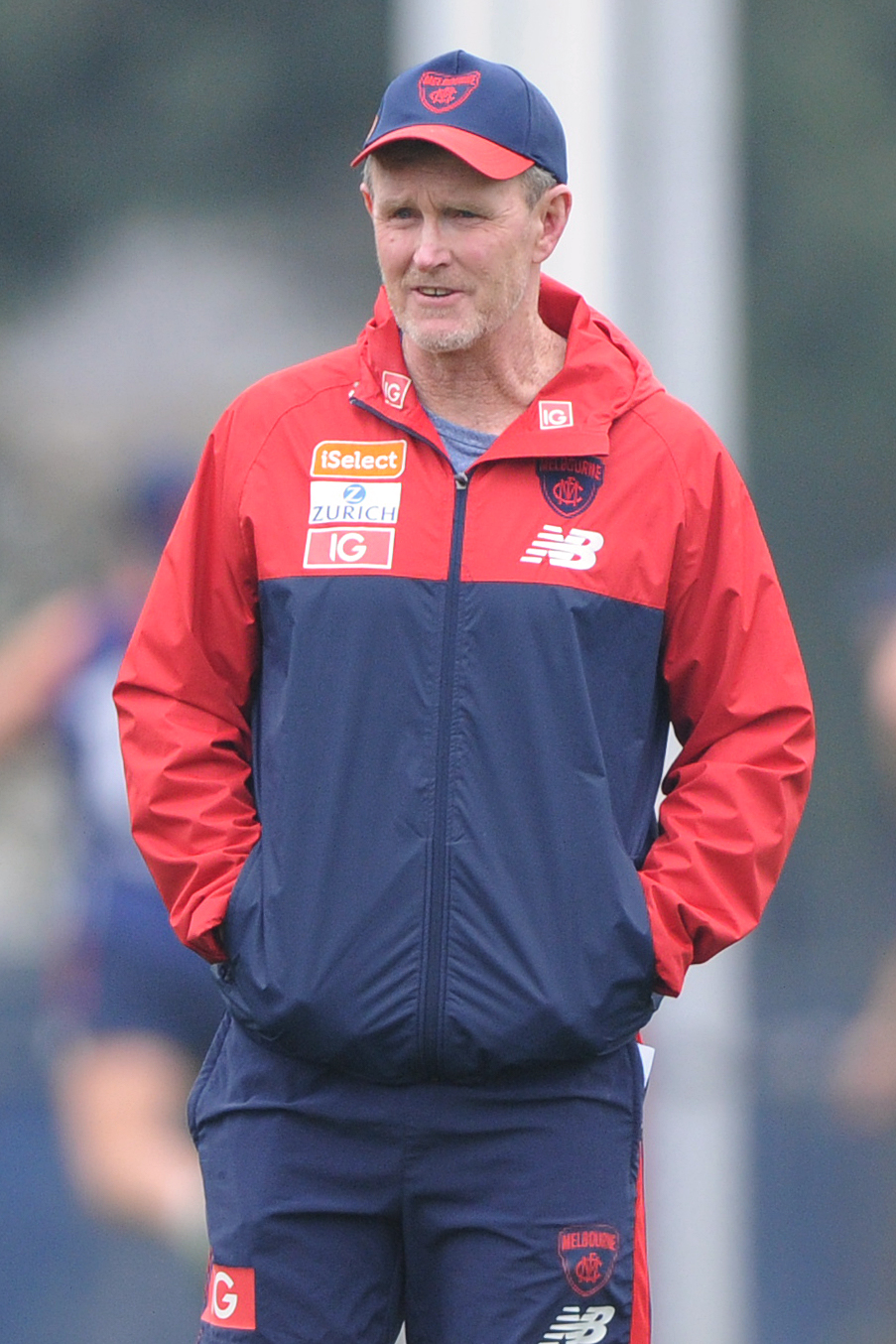 Brendan McCartney during Melbourne training on 21 April 2018 at Gosch's Paddock in Melbourne, Victoria.